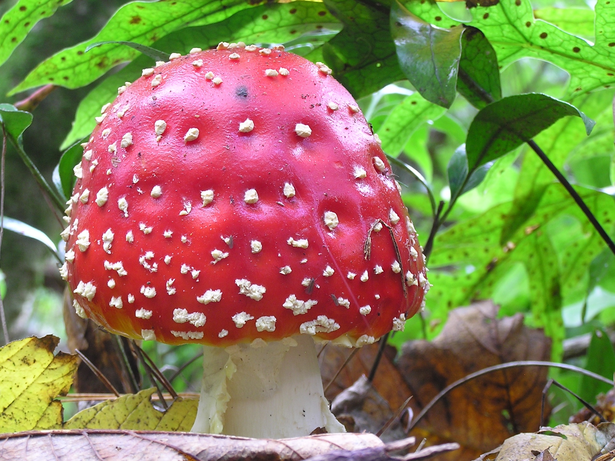 Fly Agaric mushroom (Amanita muscaria) in regenerating native forest, Wellington, New Zealand. At this stage it was 9cm in diameter, when fully open (ie flat) it reached a diameter of 19cm.